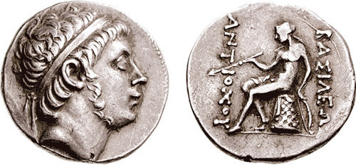 Seleukid Kings of Syria. Antiochos Hierax. 246-227 BC. AR Tetradrachm (16.81 g, 12h). "Sardes" mint. Diademed head right ΒΑΣΙΛΕΩ[Σ] ΑΝΤ-ΙΟΧΟΥ, Apollo seated left on omphalos, nude but for slight drapery on right thigh, holding arrow in right hand, left hand resting on bow. SC 902.1; Mørkholm, "Some Seleucid Coins from the Mint of Sardes," NNÅ 1969, obv. die A1; WSM 1669; SNG Spaer -; Houghton -. Good VF, toned.